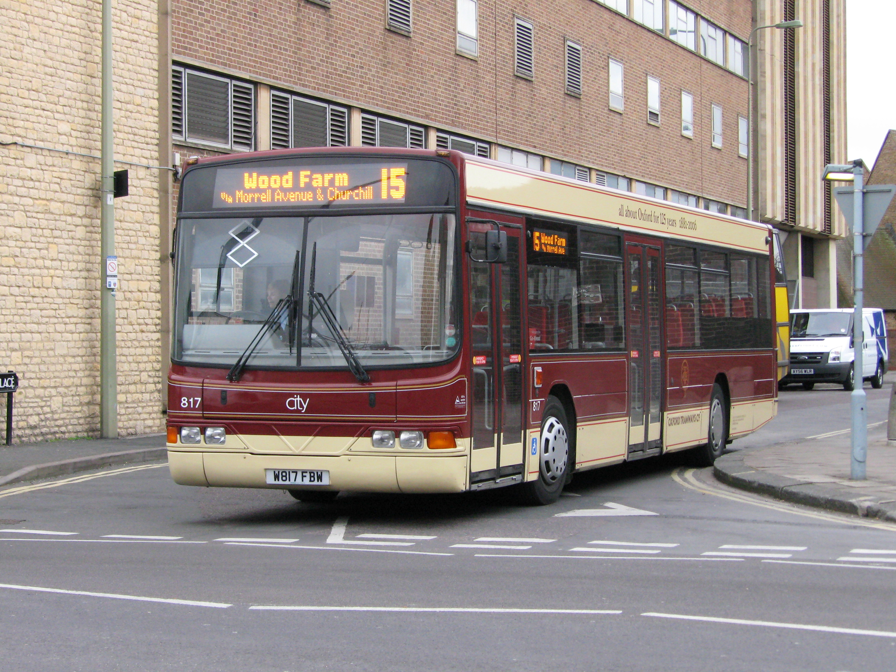 An Oxford Bus Company bus on route 15 in Butterwyke Place, Oxford. It is a Volvo B10BLE with a Wright Renown body, fleet number 817, registration mark W817 FBW. It is in City of Oxford Tramways livery to commemorate 125 years since the company's foundation in 1881.